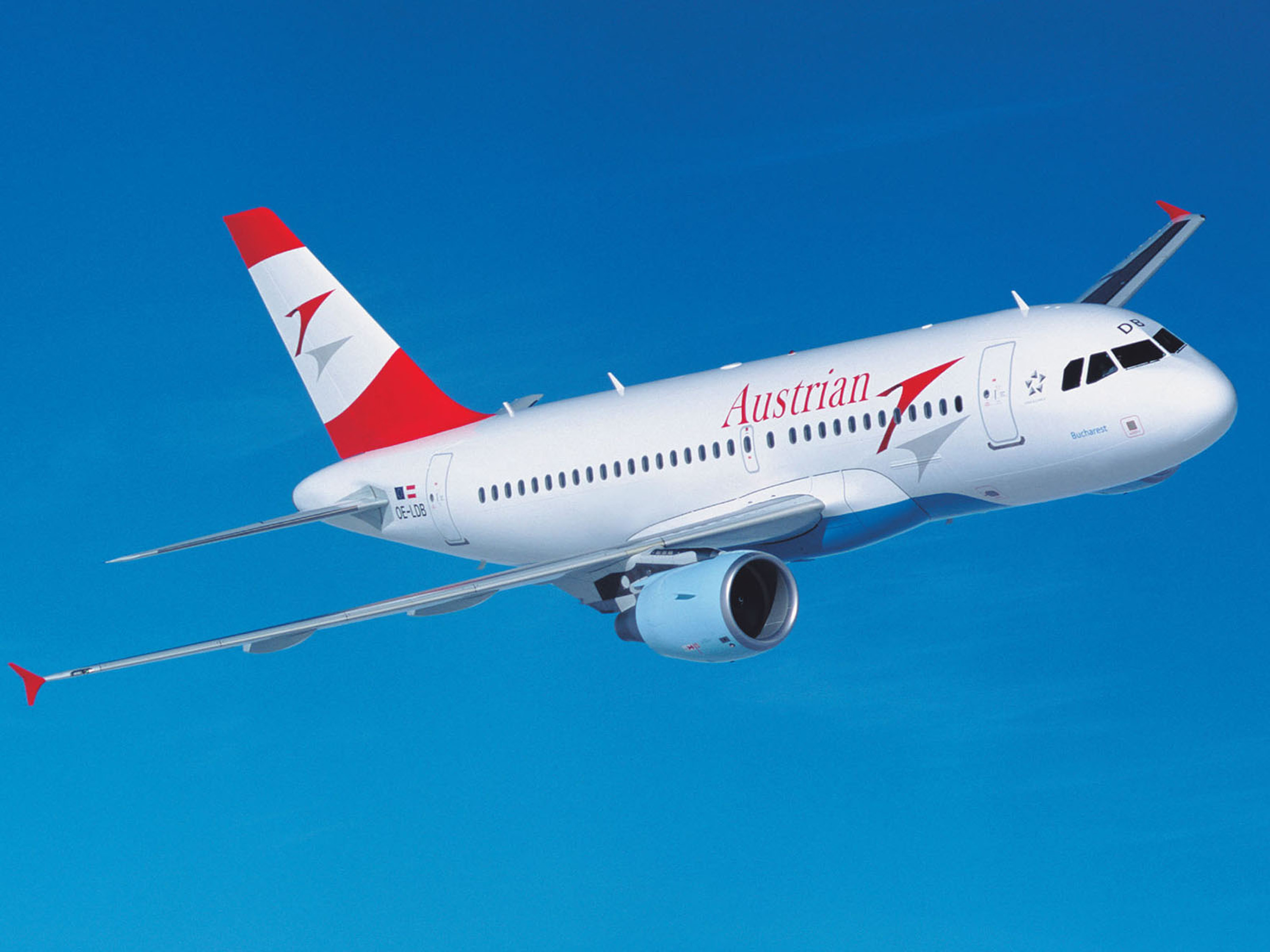 An air-to-air photo of an Austrian Airlines Airbus A319